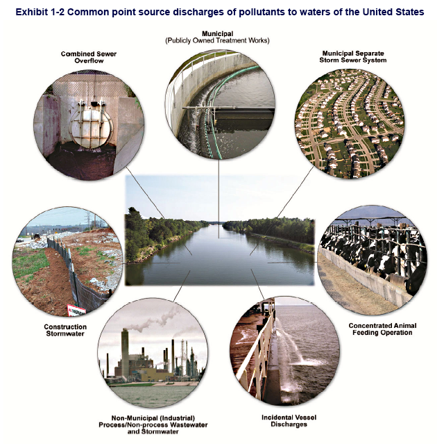 Photos depicting common types of point source dischargers to surface waters in the United States. These facilities are required to obtain discharge permits from the National Pollutant Discharge Elimination System (NPDES).